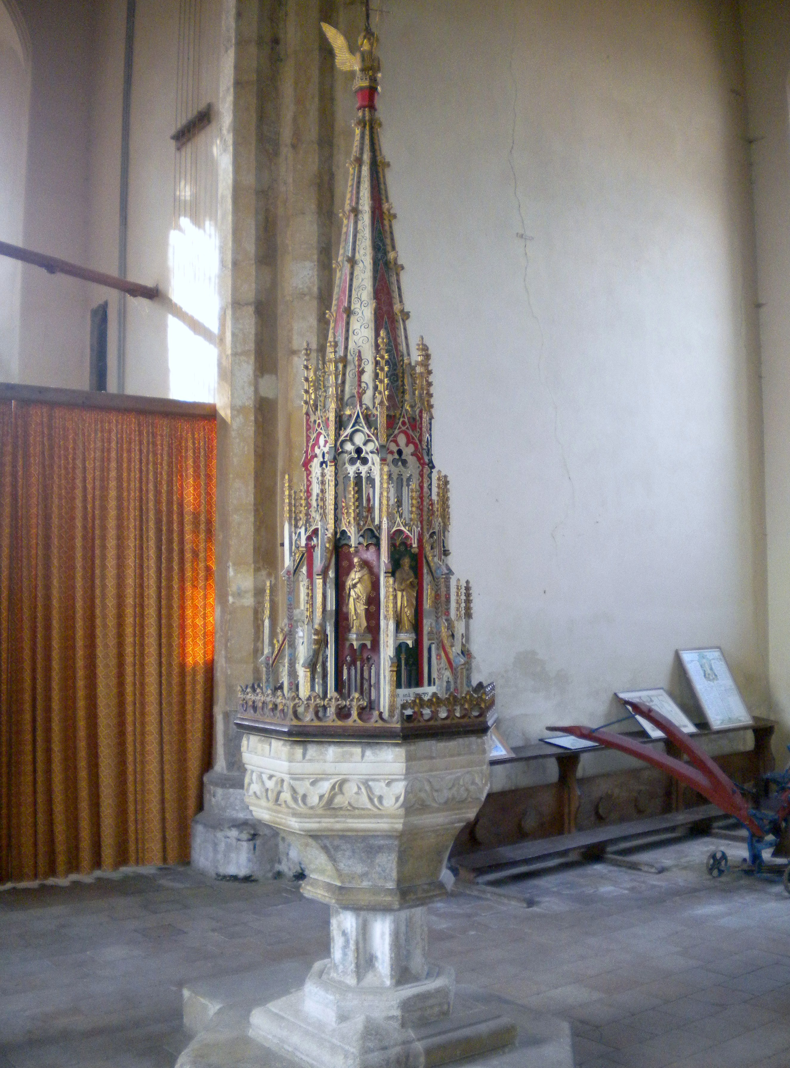 The Perpendicular Gothic font cover at St Mary's Church, Elsing, Norfolk, England.